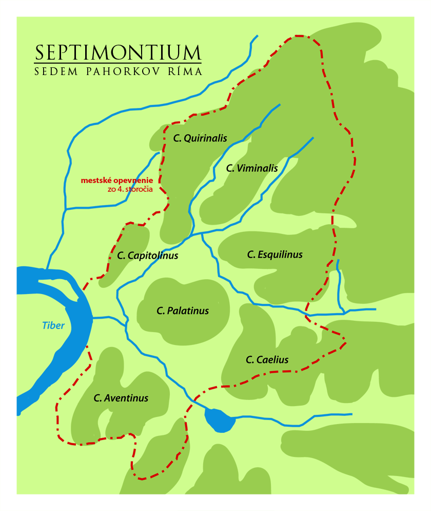 Seven hills of Rome. Basic Scheme. Slovak/Latin.